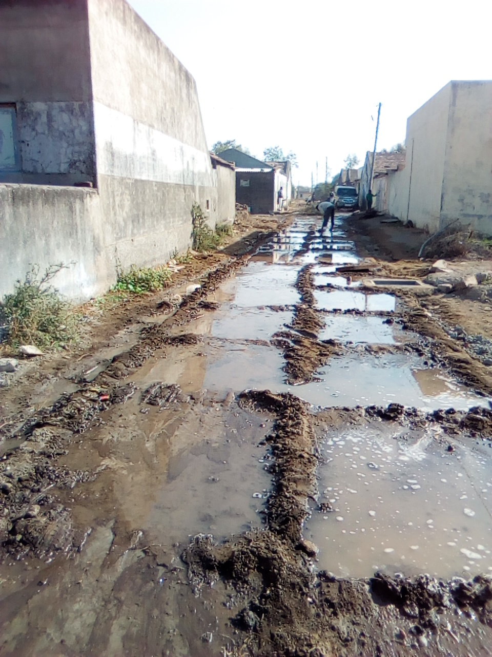 RCC Road Construction site at faubourg of Makaji Meghpar